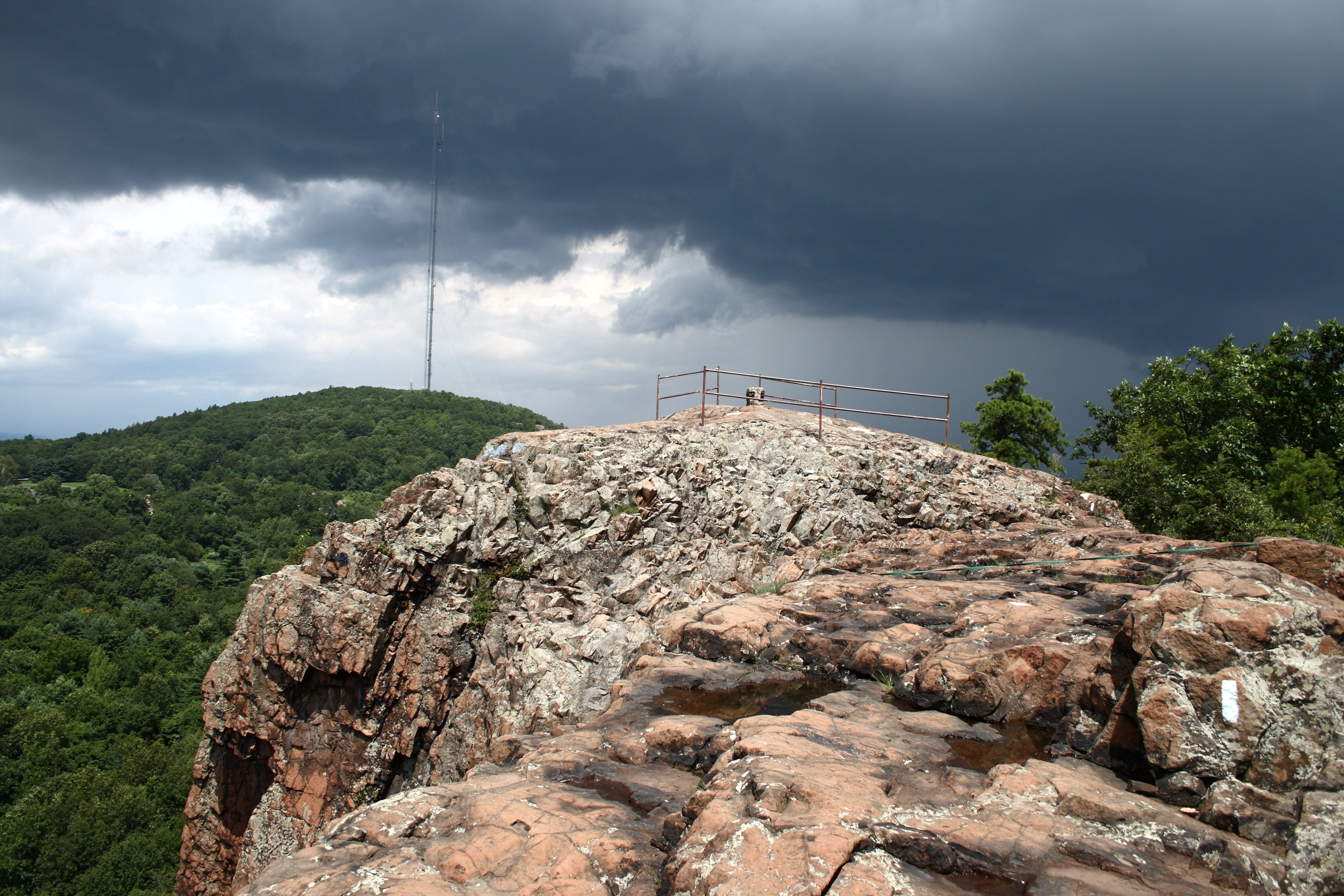 The top point of Pinnacle Rock in Plainville, Connecticut, with Rattlesnake Mountain in Farmington in the background. This photo was taken facing approximately north.